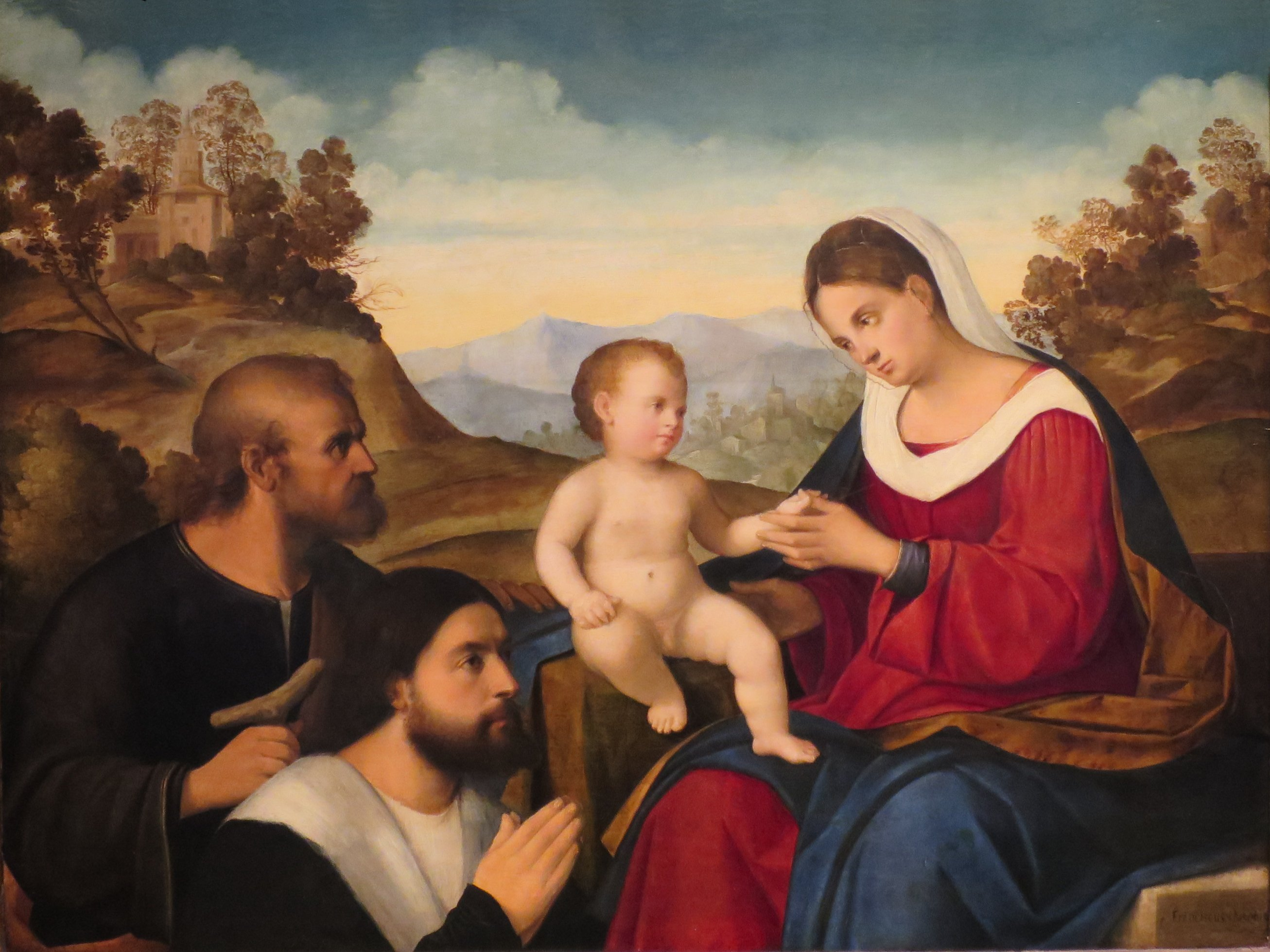 The Holy Family with a Donor in a Landscape